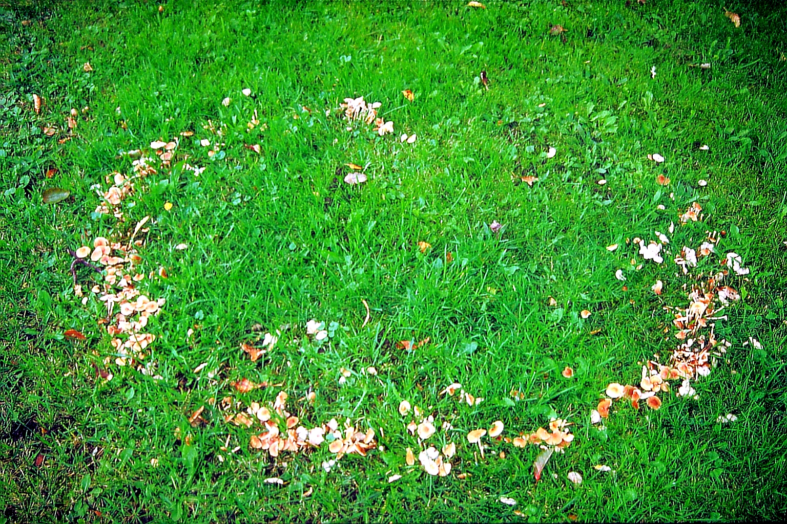 The making of this document was supported by the Community-Budget of Wikimedia Germany.